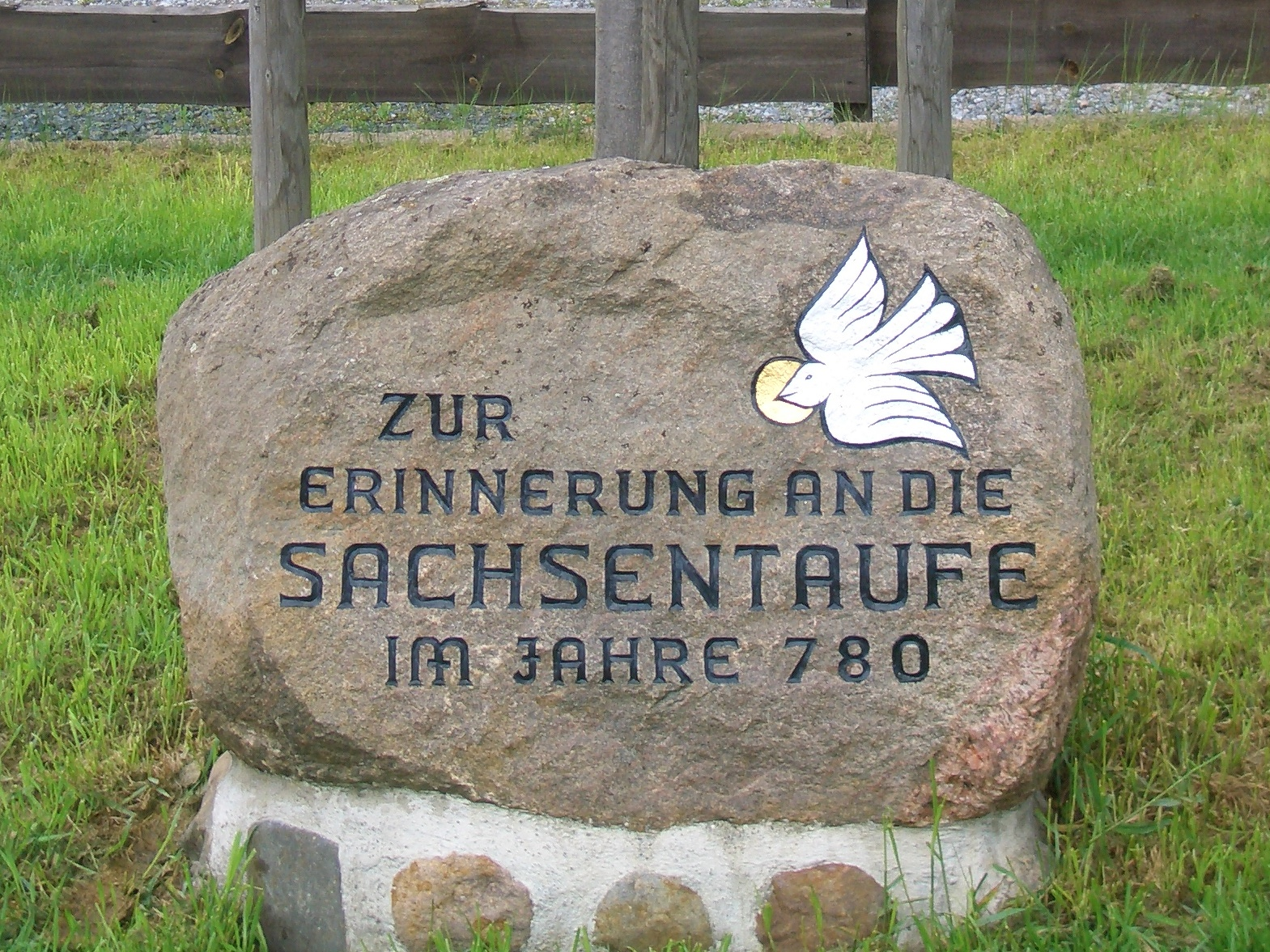 Memorial Baptism of Saxons in 780 at Ohrum (Oker)